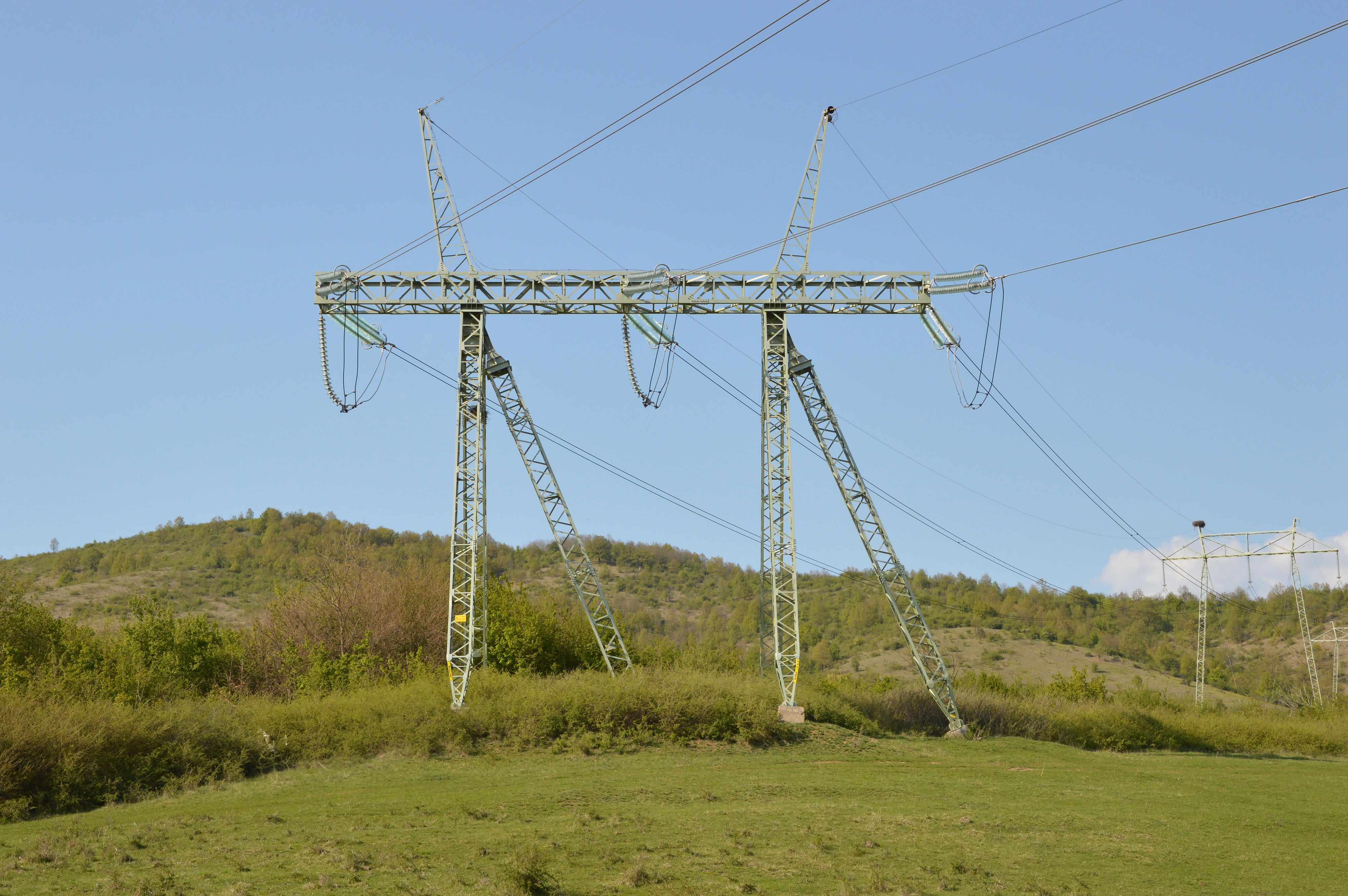 Transmission towers of a single-circuit overhead power line near Skravena, Botevgrad municipality, Bulgaria.